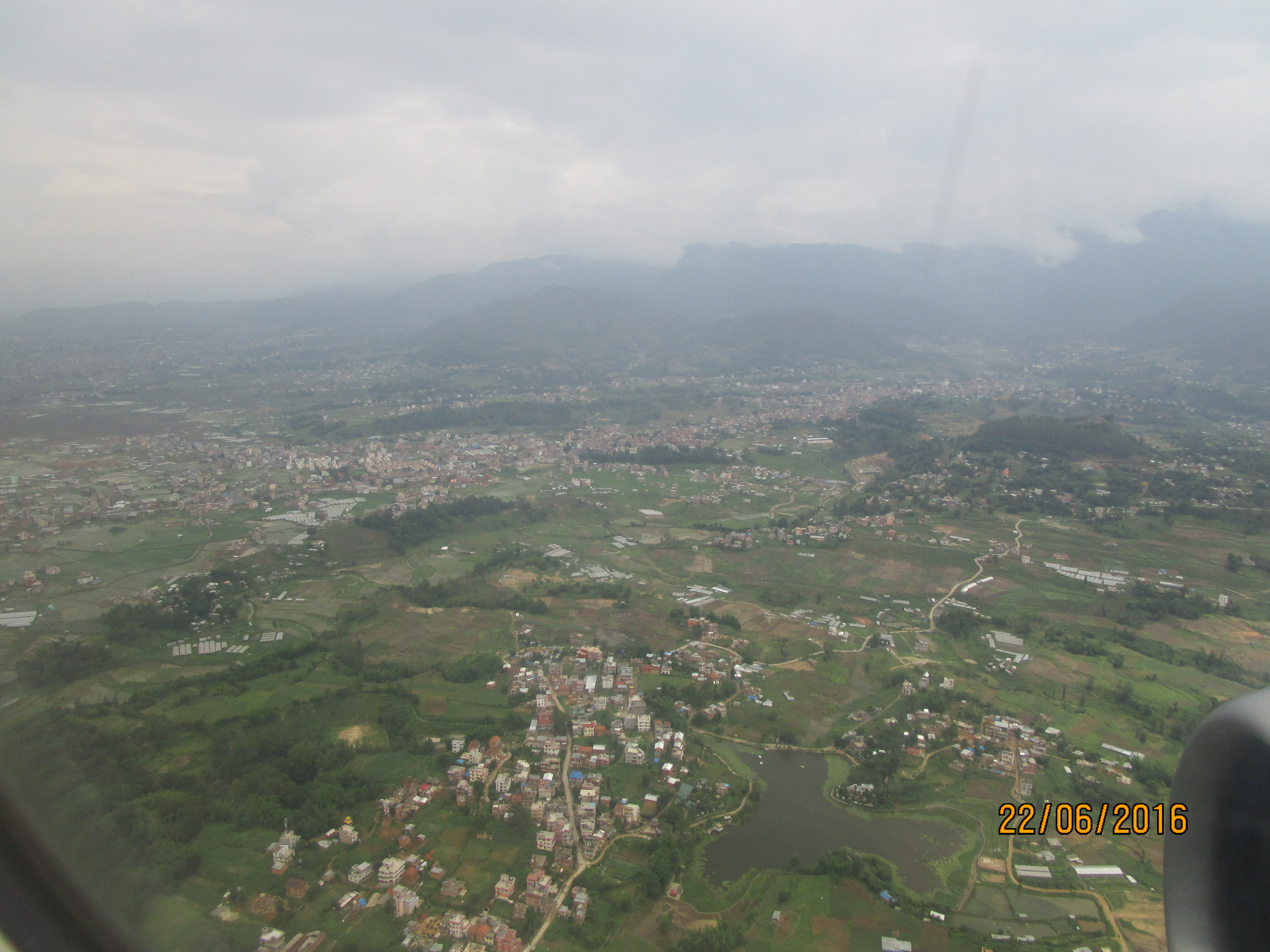 Nagdaha, Dhapakhel, Central Development Region, Nepal